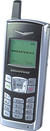 BroadVoice WiFi Telephone